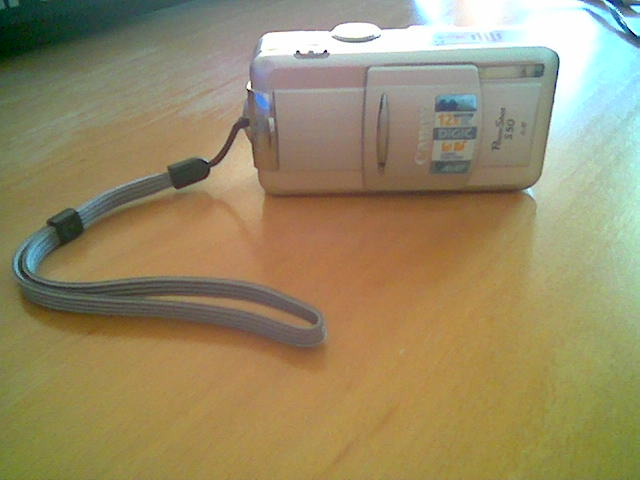 Canon Powerhot S50 - digital camera